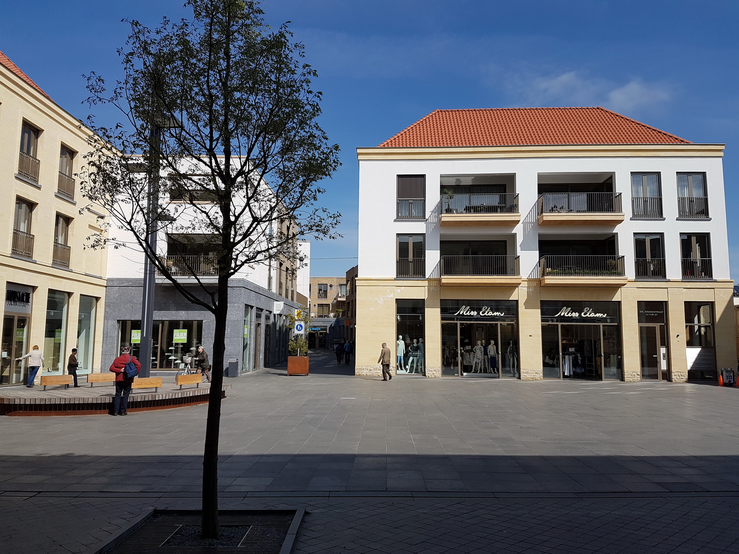 View from Dr Erensstraat of entrance to Irmengardpassage in shopping centre Aan de Kei in the centre of Valkenburg, Limburg, the Netherlands.